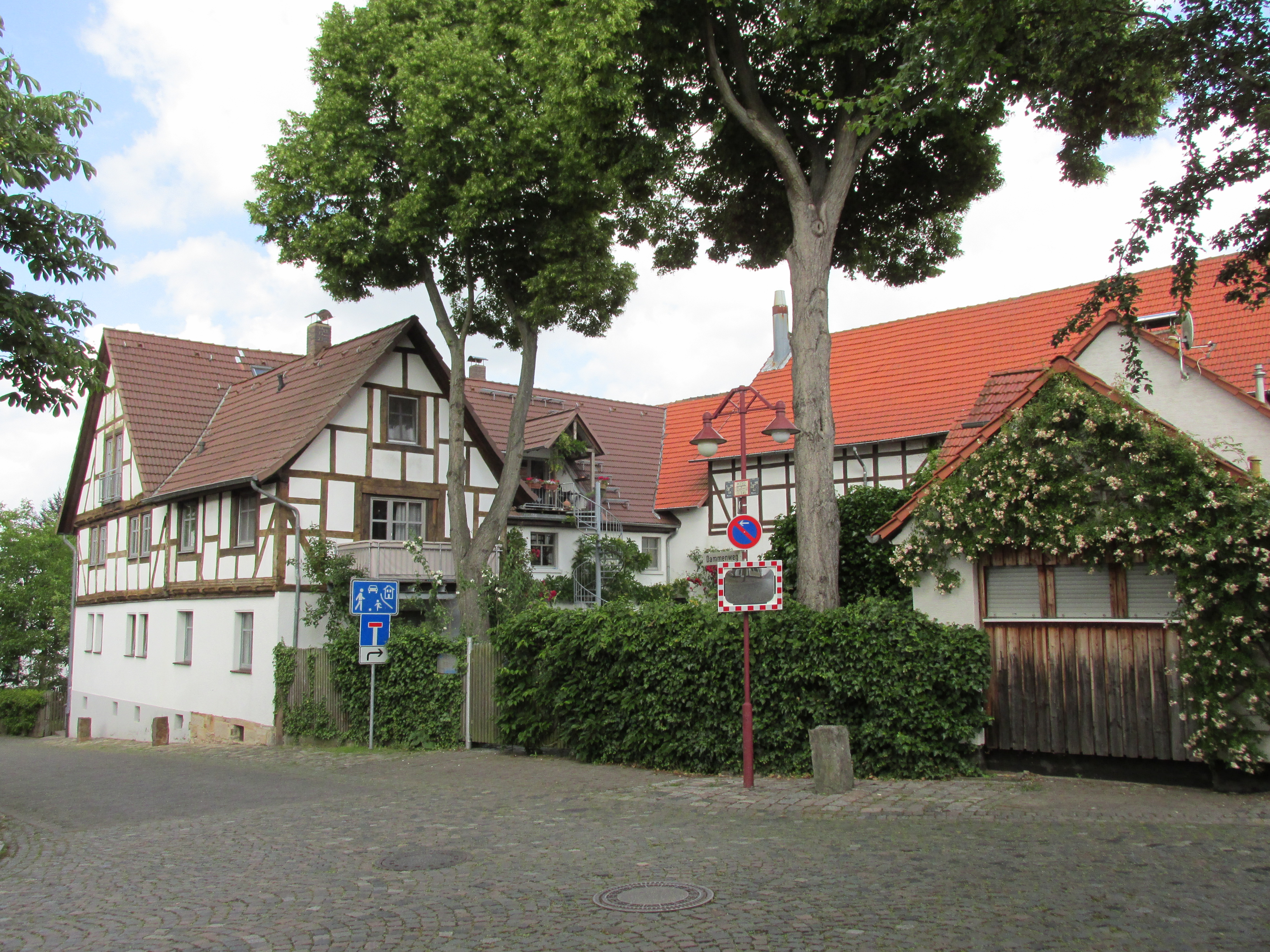 Dammenweg, Vellmar, Germany check usage